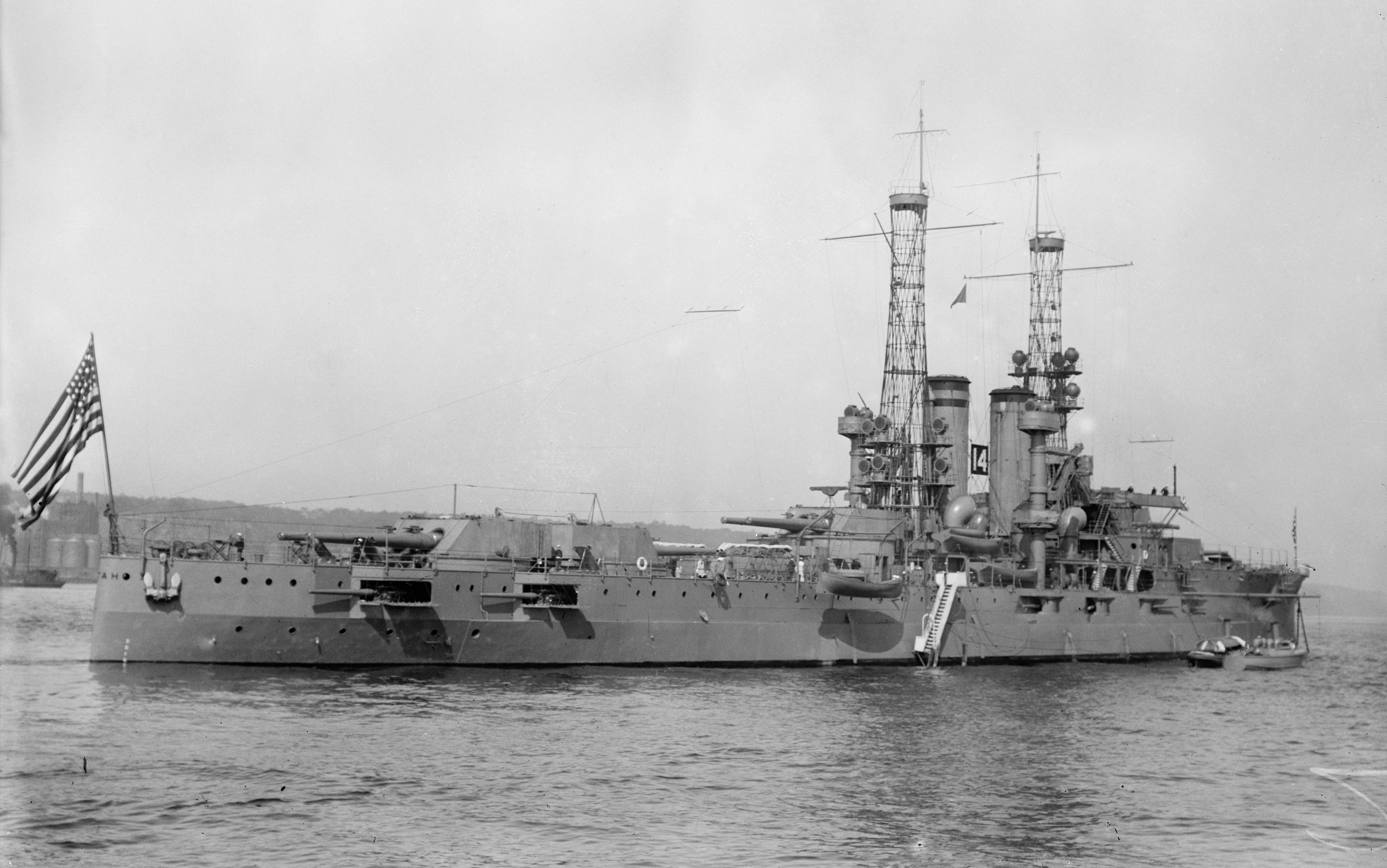 Photograph of American battleship USS Utah (BB-31).